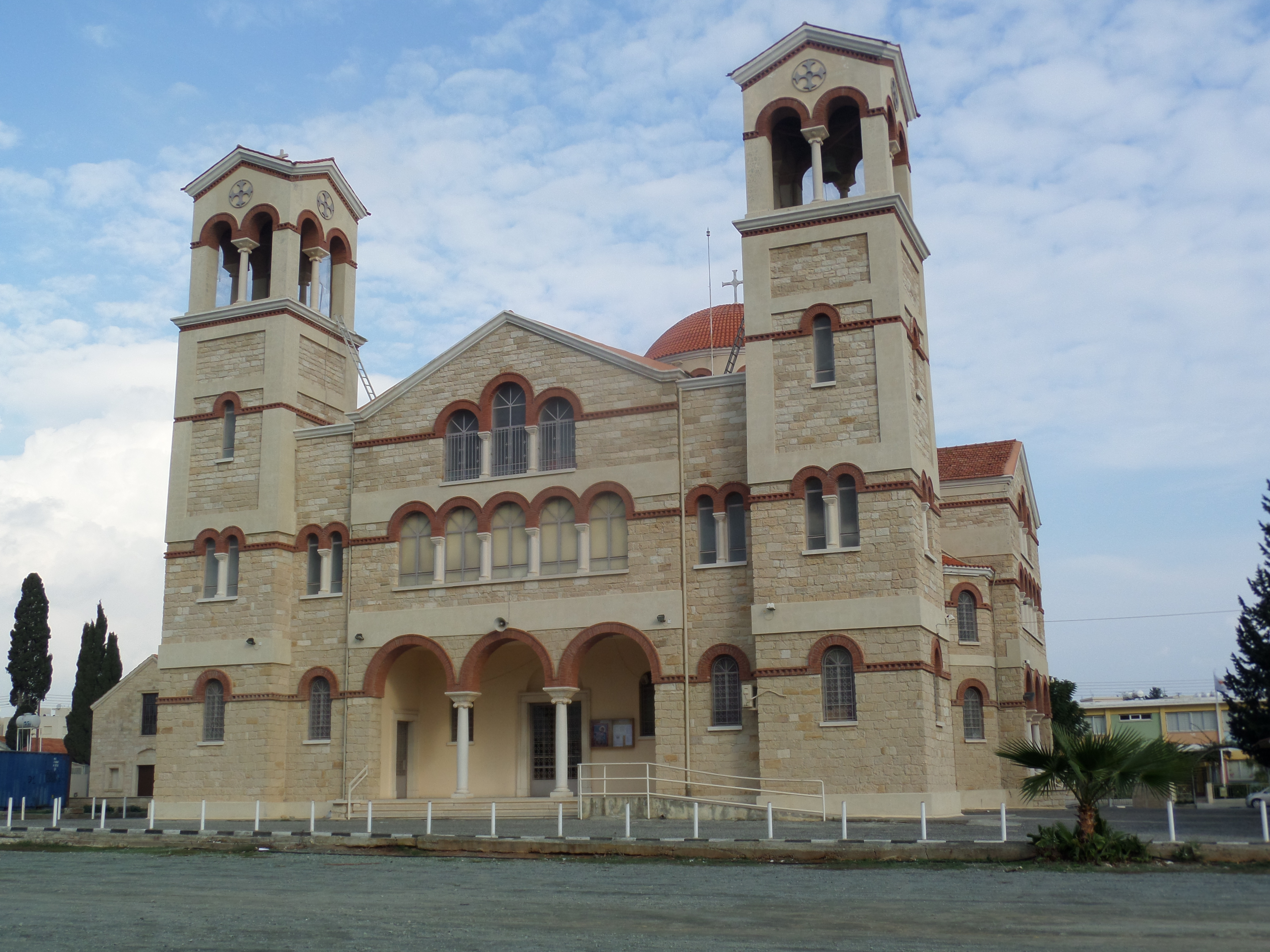 Saint Barbara's church at Zakaki, Limassol